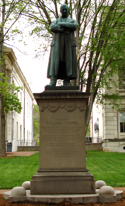 A statue of Kentucky Governor William Goebel which stands in front of the Old State Capitol in Frankfort, Kentucky